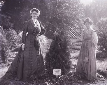 Lady Constance Lytton and A Kenney. This picture was taken by Colonel Linley Blathwayt and was stored on glass negatives. The Blathwayt's home of Eagle House way the home of Linley, Emily and Mary Blathwayt who all actively supported the suffragette cause. Nearly all the prominient UK suffragettes stayed with them and these photos and dozens of trees were planted to commemorate their visits. Col. Linley Blathwayt took these pictures between 1908 and 1912. He died in 1919. The pictures are made available in larger formats by .